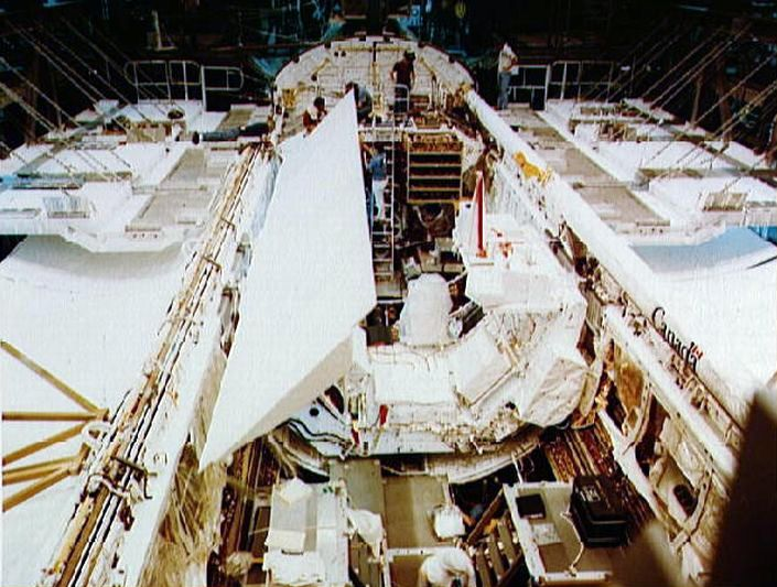 View of the open payload bay for the Shuttle Imaging Radar-A Antenna mounted on the OSTA-1 pallet